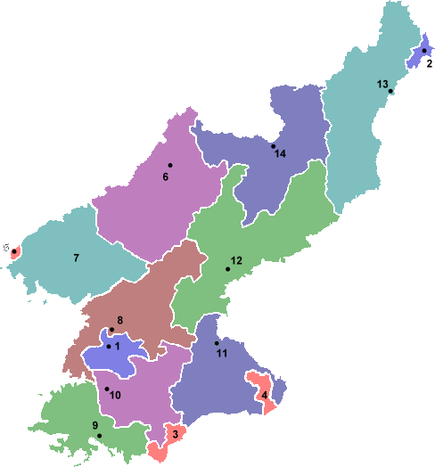 A Political Map of North Korea